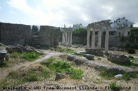 Kos archeological site